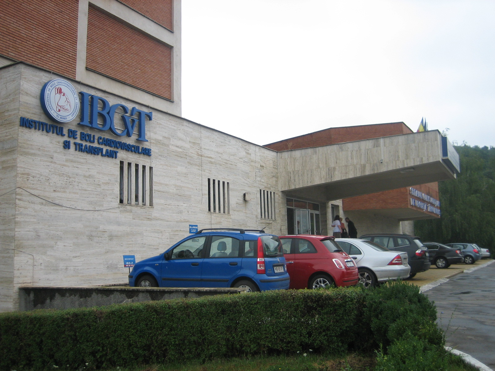 Entrance of Mureş County in Târgu Mureş.